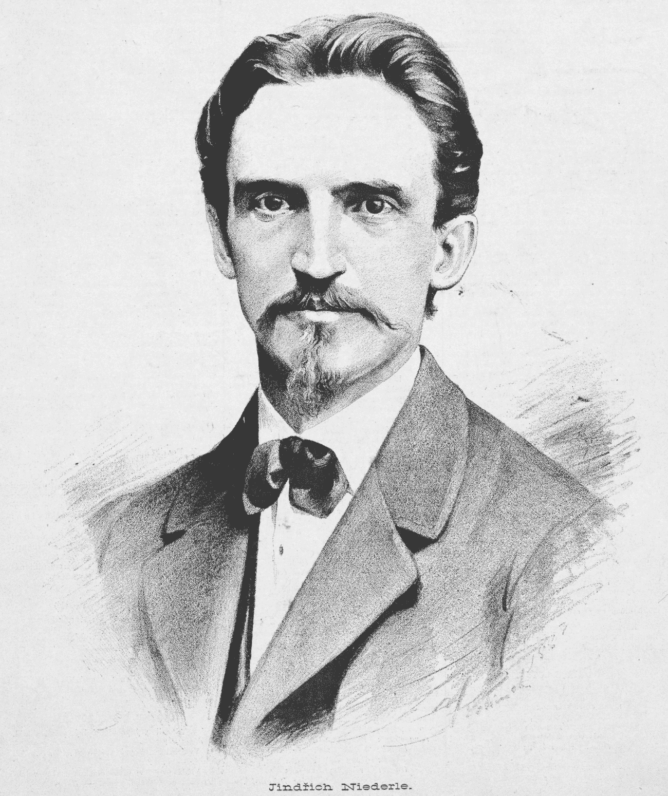 Portrait of Jindřich Niederle, Czech philologist and poet.